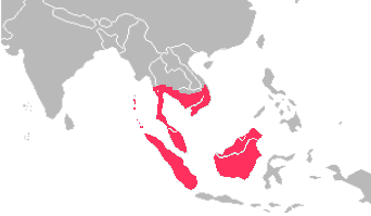 Map of the distibution of the species Tragulus napu